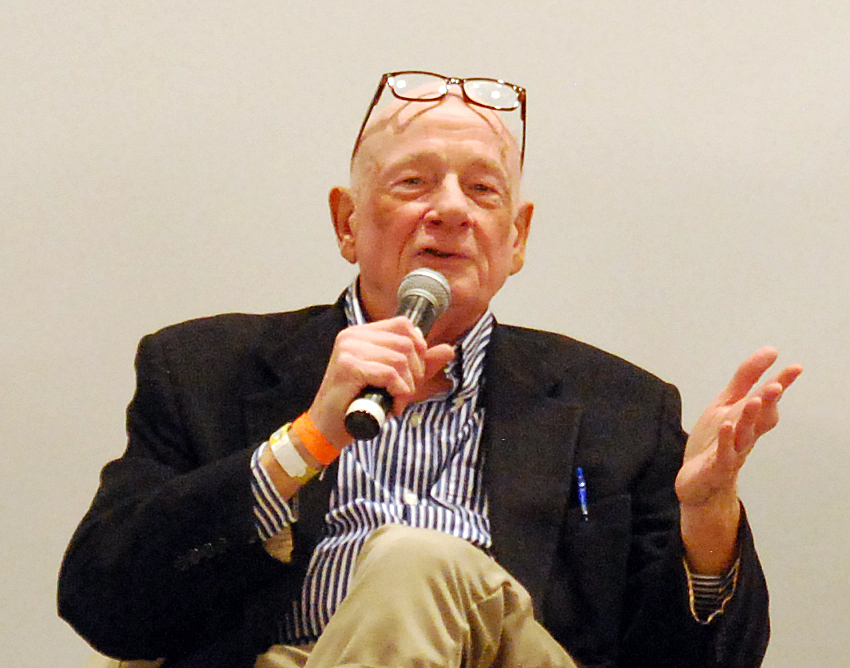 Raymond Moody at a workshop in Paris